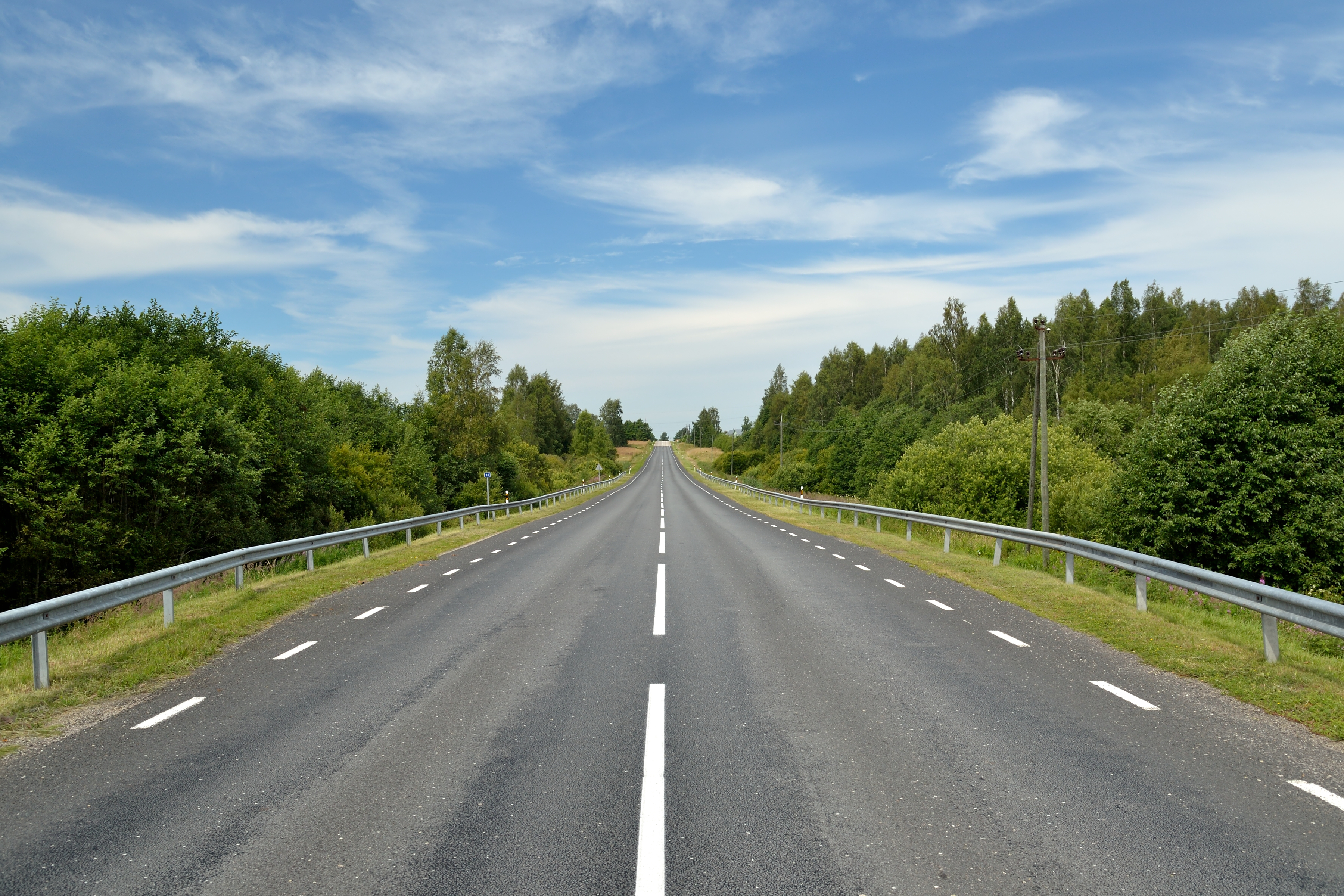 Tartu–Räpina–Värska road in Kärsa village